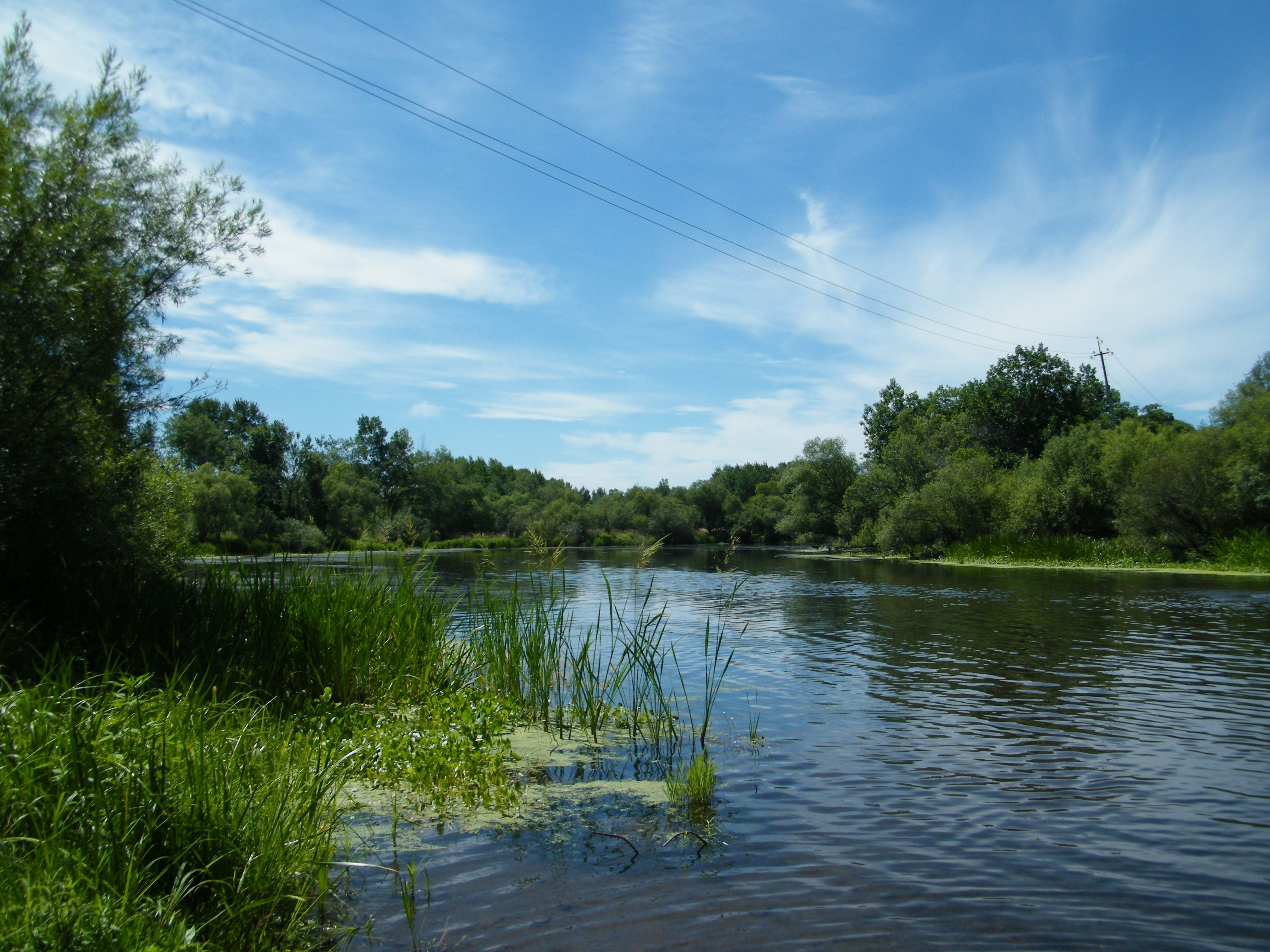 Река Кия, село Могилевка Хабаровский край